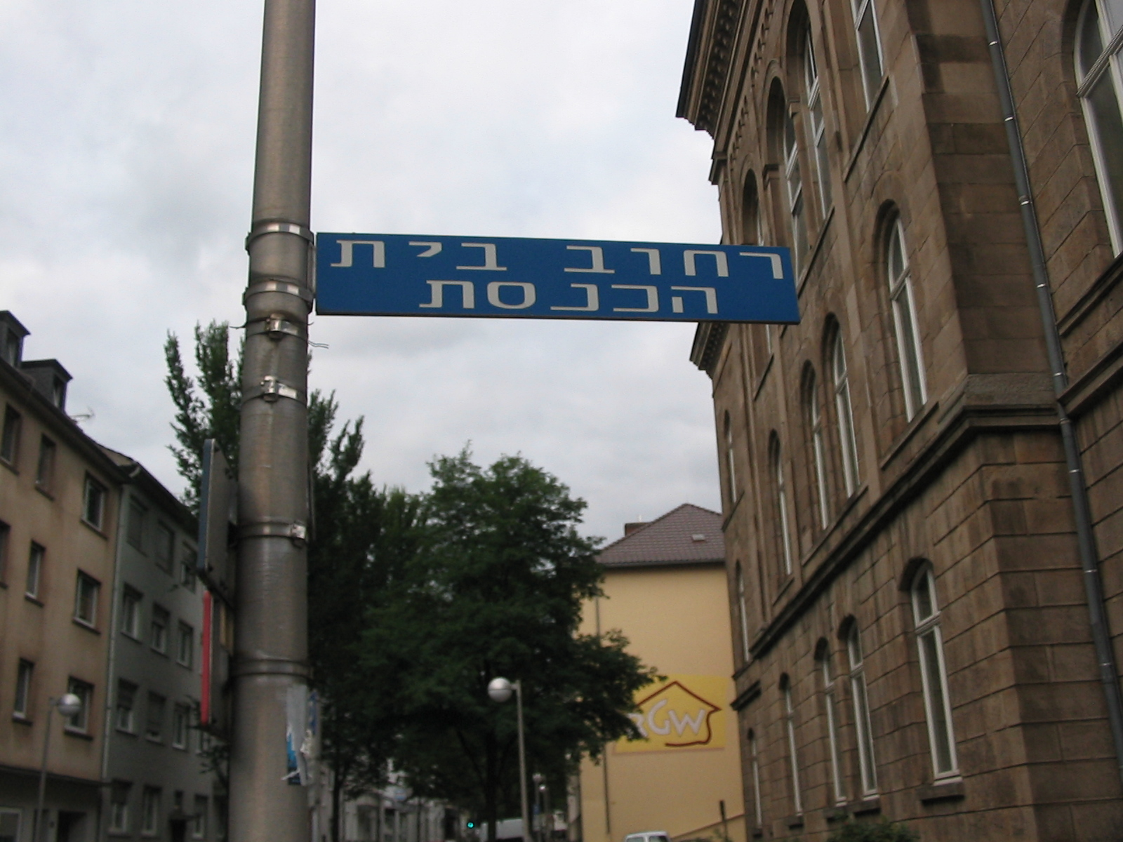 street sign Synagogenstraße (Synagogue Street), former Kurze Straße, in Witten in Hebrew